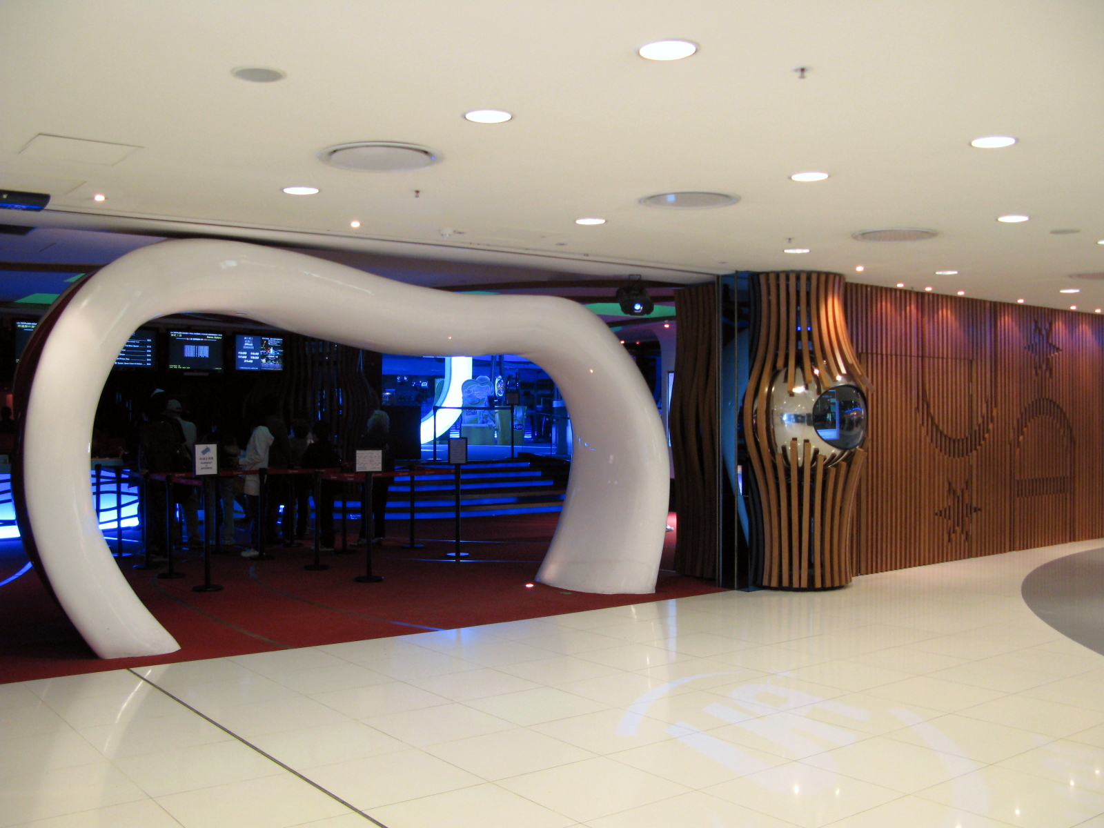 Tuen Mun Town Plaza UA Cinema